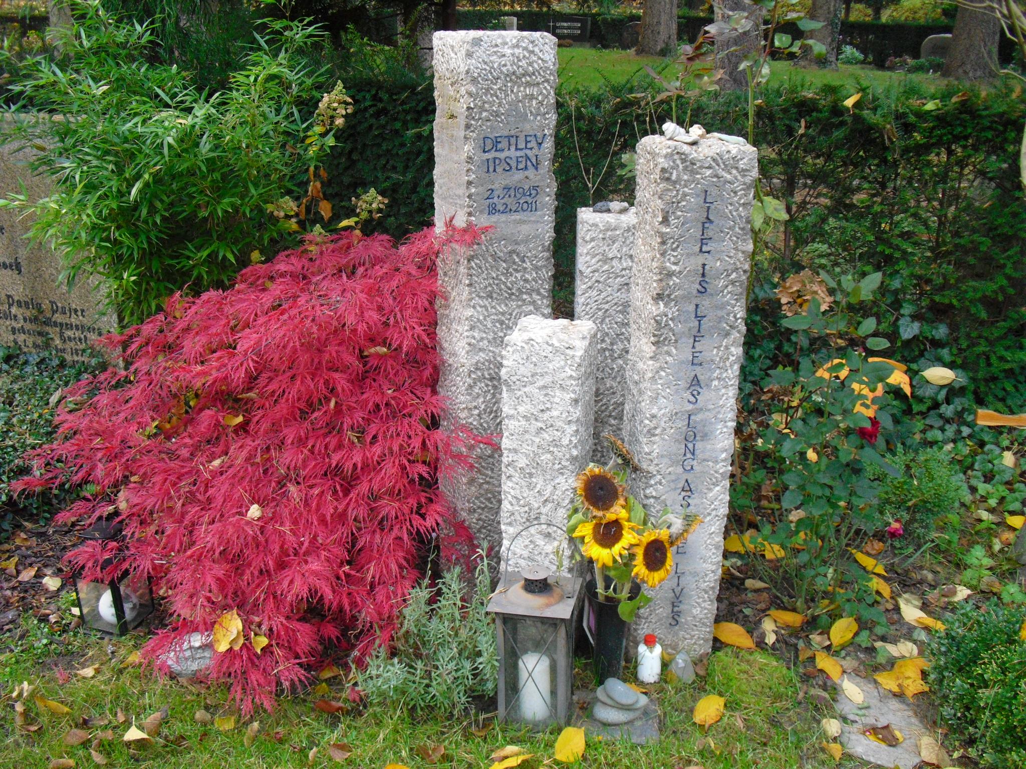 Grave of sciologist Detlev Ipsen in Friedhof Heerstraße in Berlin-Westend